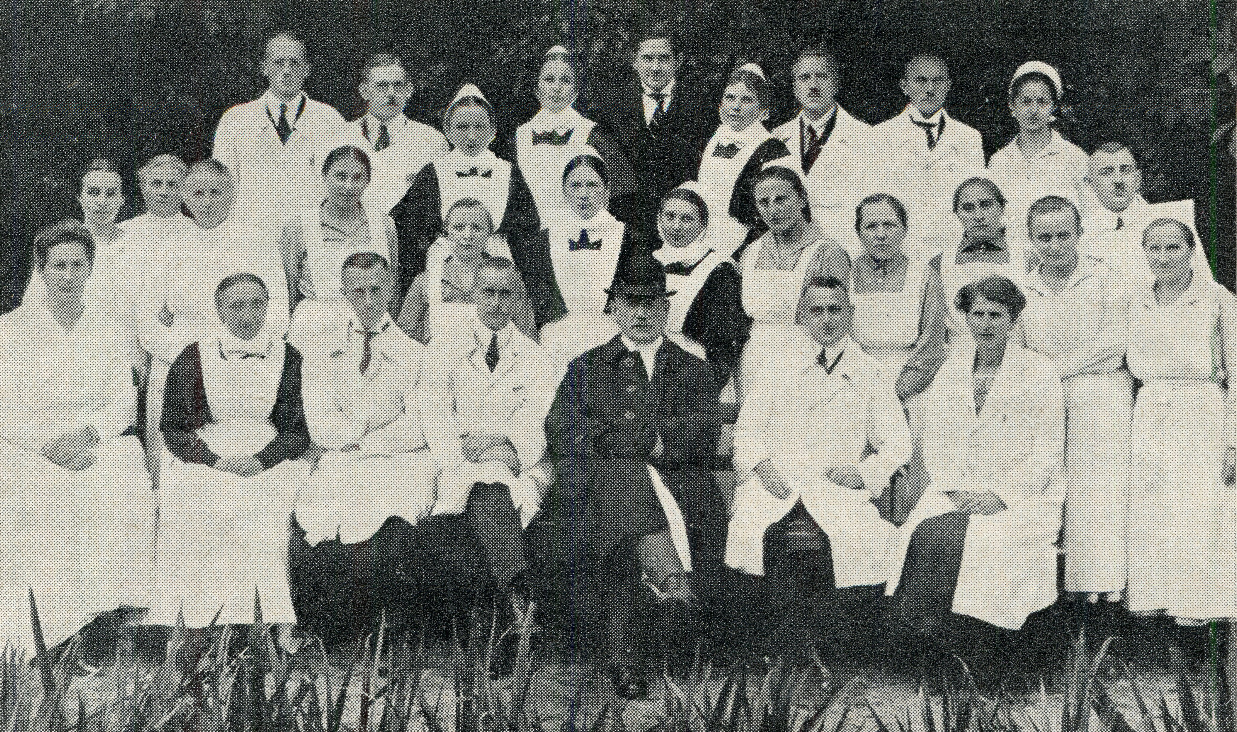 Prof. Oskar Samter was a German Physician from Koenigsberg, todays Kaliningrad, chief of the Surgery Clinic.